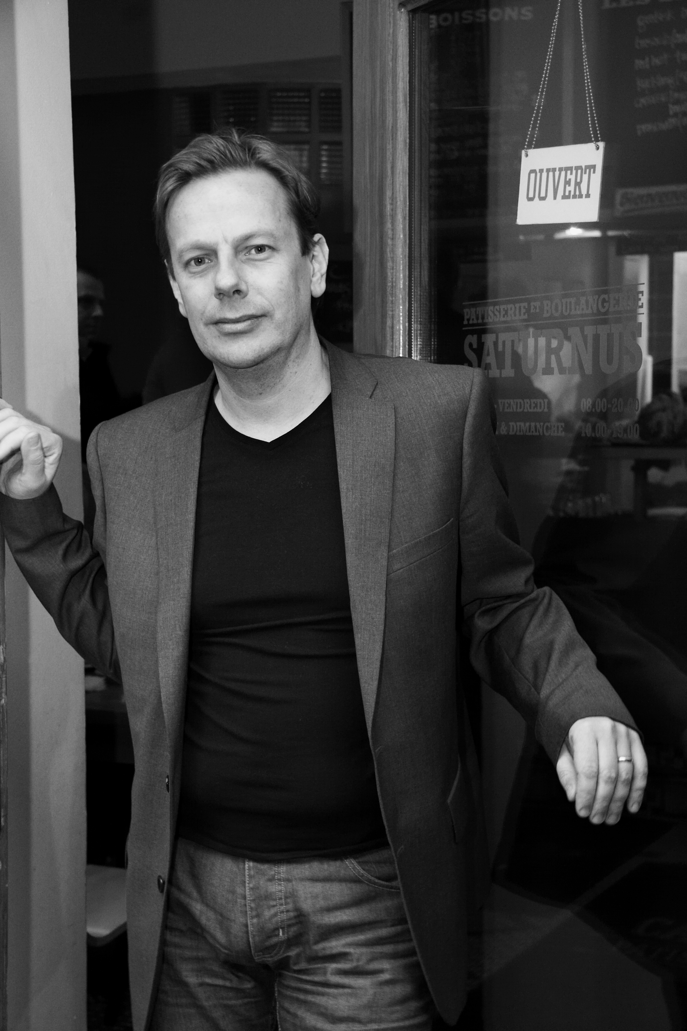 Folke Tersman, Swedish author